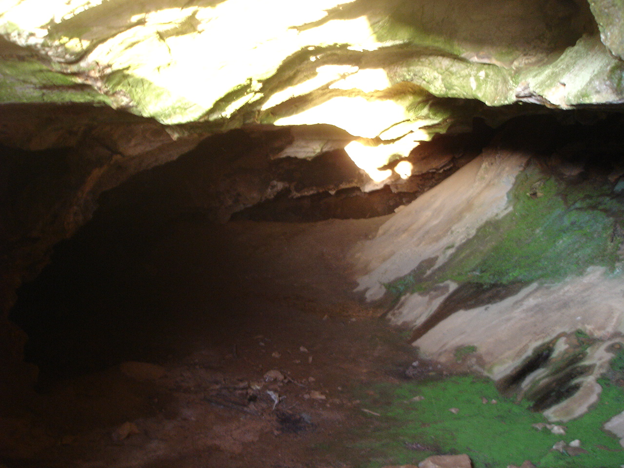 Dona Duka cave near Rashce, Macedonia